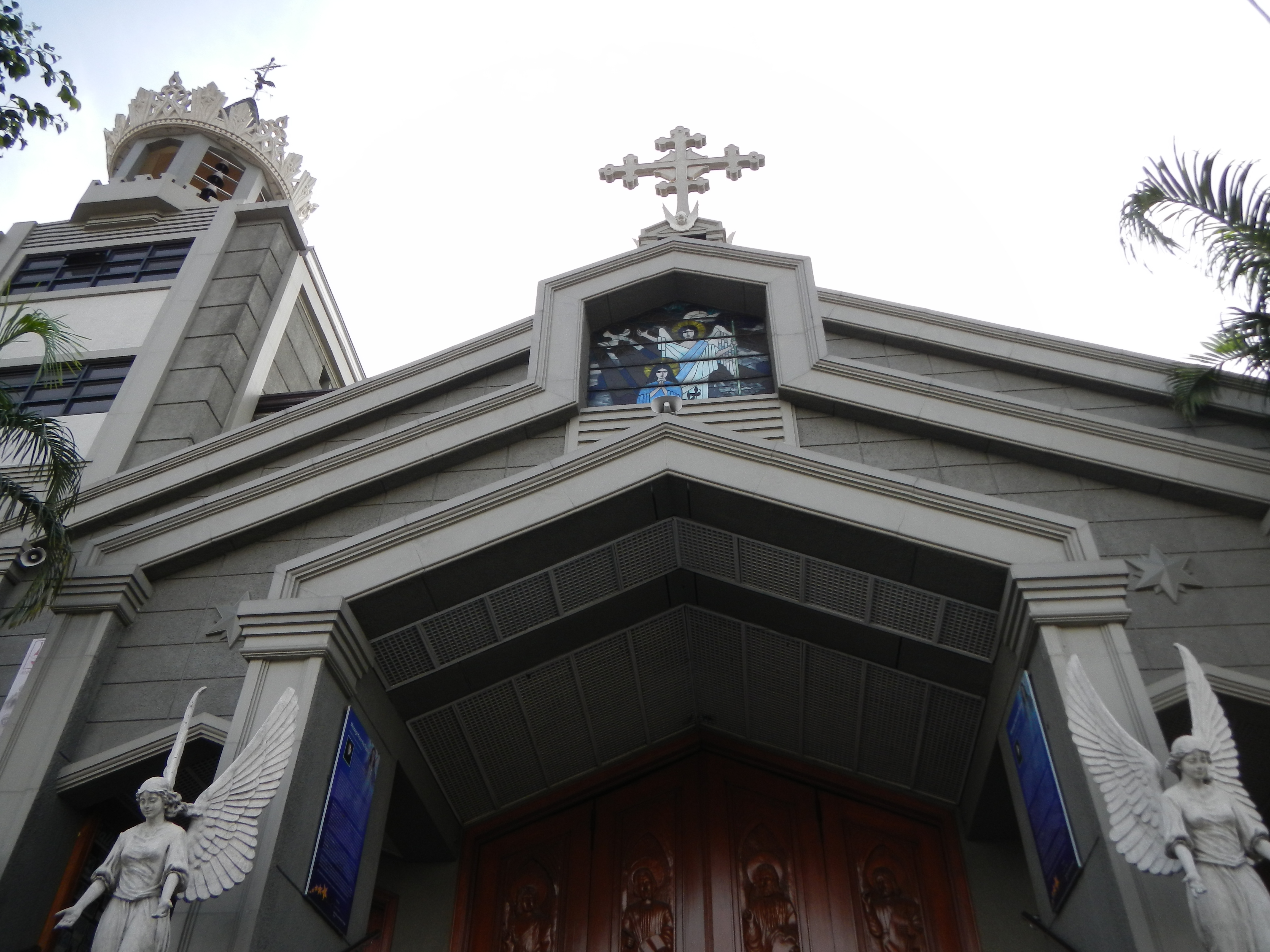 Our Lady of Annunciation Parish[1] [2] Coordinates: 14°40'43"N 121°1'54"E[3] OLAP is under the V icariate of San Isidro Labrador, which is under the Diocese of Novaliches[4] . Its address is Our Lady of the Annunciation Parish, Mindanao Avenue, St. Dominic 3 Subd., Barangay Tandang Sora, Q.C. OLAP is at the border between the Diocese of Novaliches and the Diocese of Cubao. It also sits at the border between two vicariates within the diocese of Novaliches, Vicariate of San Isdiro Labrador and Vicariate of San Bartolome.[5][6] The Church is dedicated St. John Mary Vianney - John Vianney[7] Jean-Baptiste-Marie Vianney (8 May 1786 – 4 August 1859), blessed by Card. J Sin on November 24. 2000. (Parish Church of Our Lady of the Annunciation - Diocesan Shrine of the Incarnation)